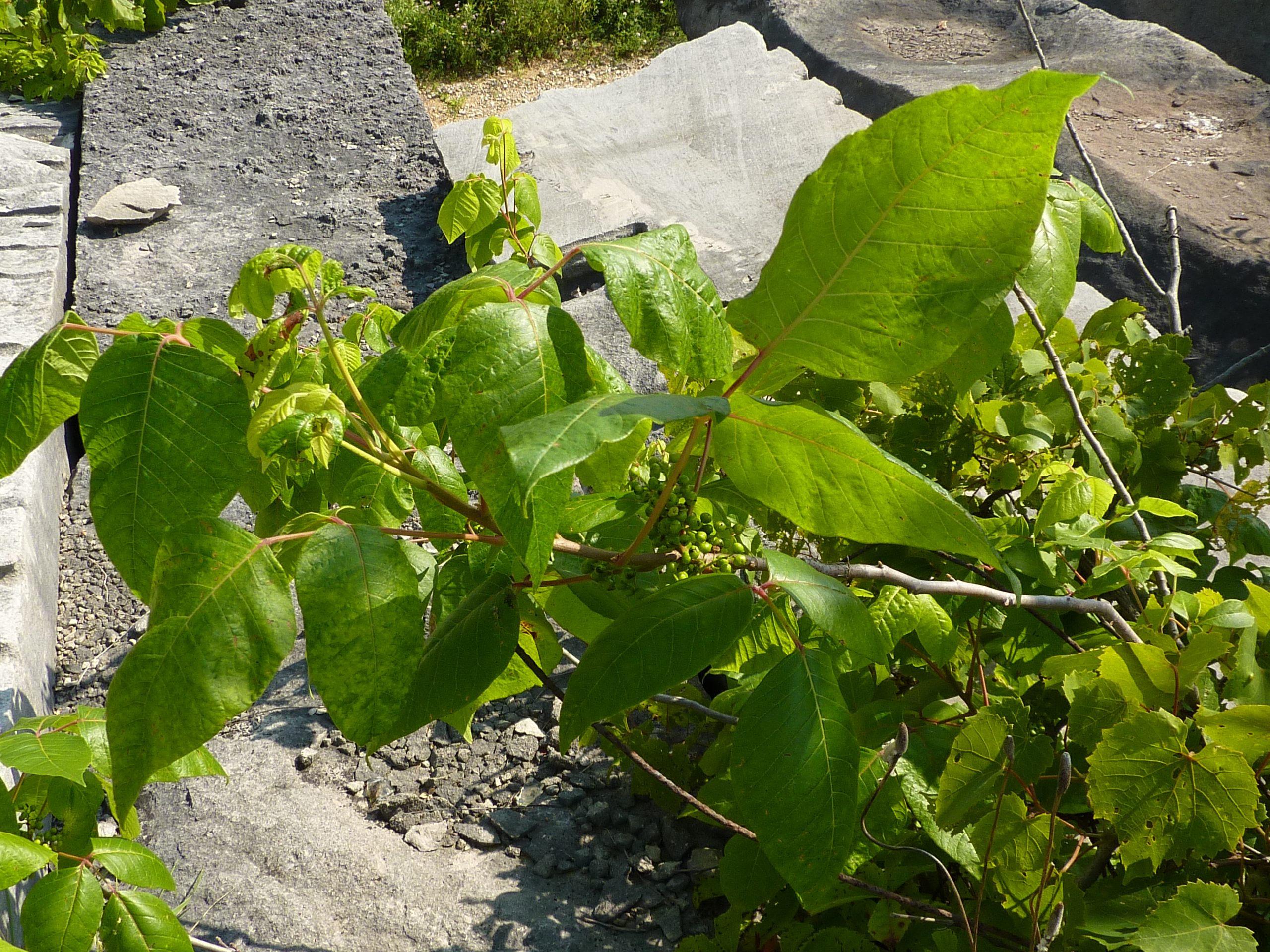 Limestone blocks piled up along the northern boundary of a quarry, just south of W. Tapp Rd in Bloomington, Indiana. Note the poison ivy that covers them in profusion.